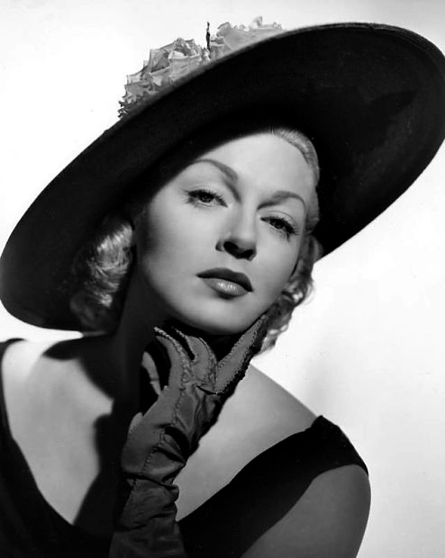 Promotional photograph of actor Lana Turner (1951)